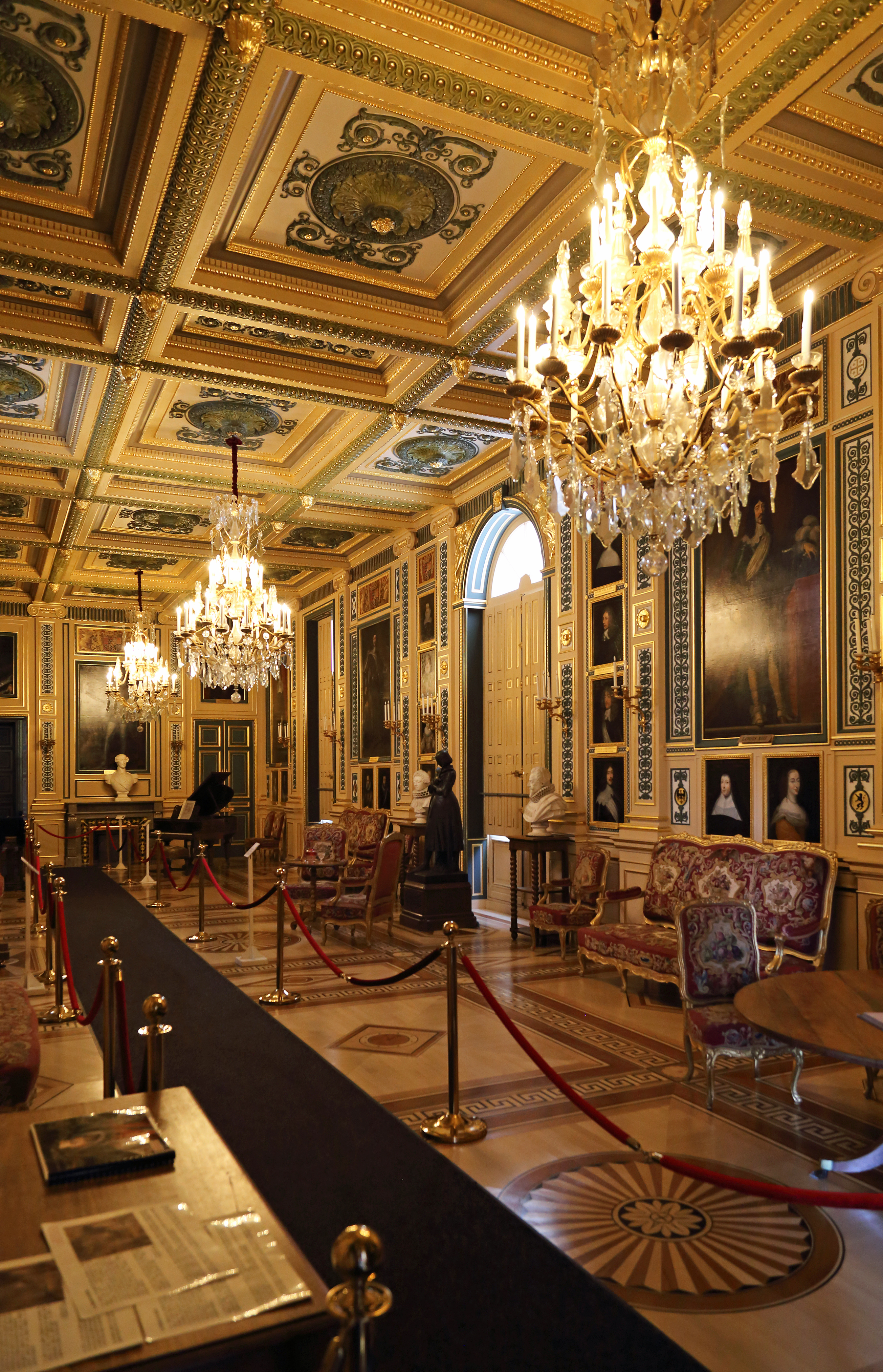 Eu (Seine-Maritime department, France): Picture Gallery.